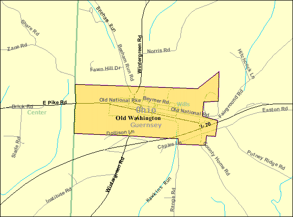 Map of Old Washington, a village in Guernsey County, Ohio, United States, with its boundaries at the time of the 2000 census.